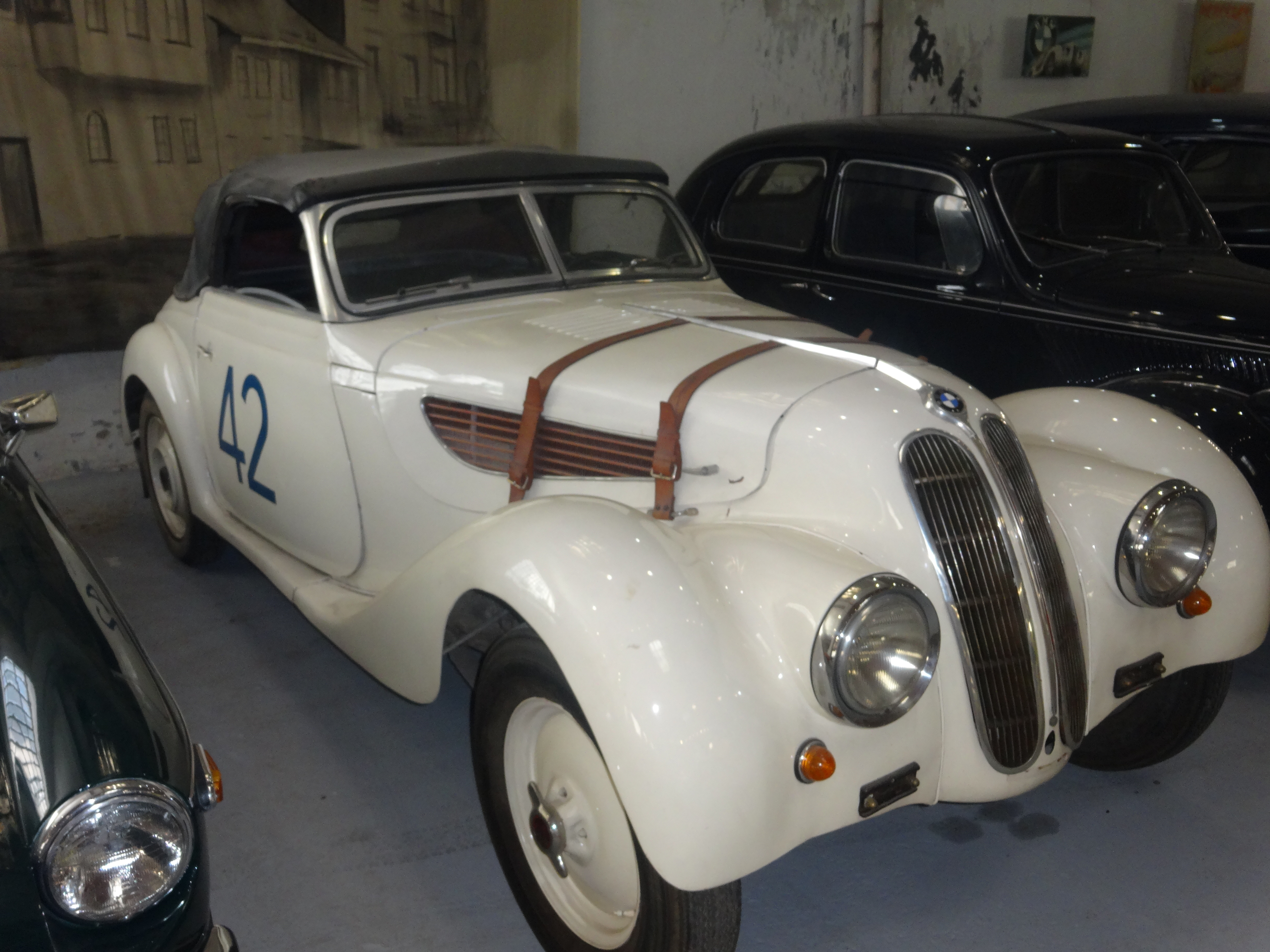 Engine: six cylinder Capacity: 1970 cm3 Power: 80 hp/5000 rpm. Max. speed: 150 km/h Transmission: four speed+reverse